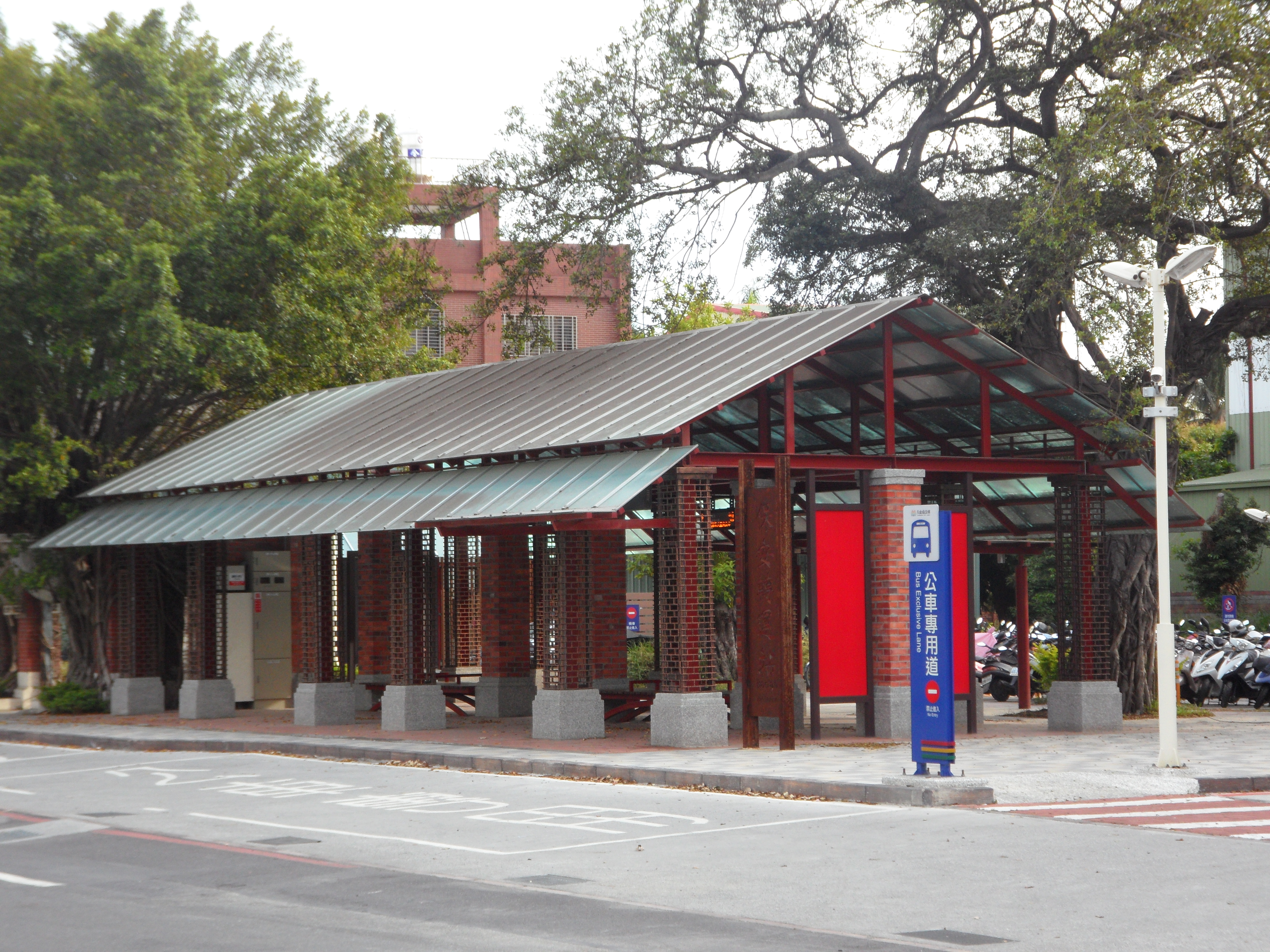 TAINAN CITY BUS BAO-AN TRANSFER STARION